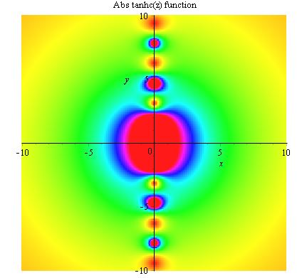 Tanhc abs plot